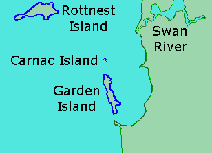 Islands offshore from Perth, Western Australia